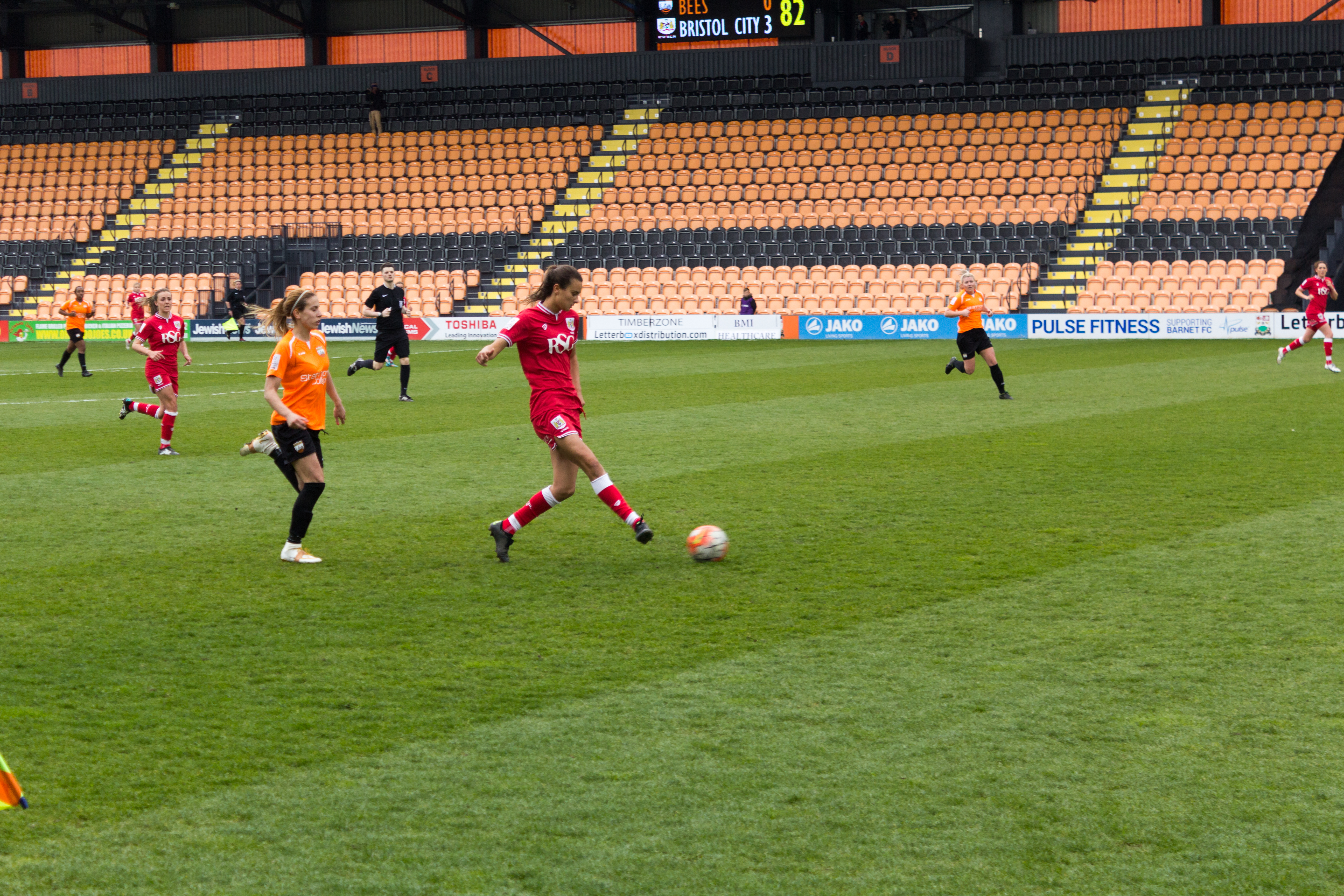 London Bees v Bristol City WFC, 24 April 2016